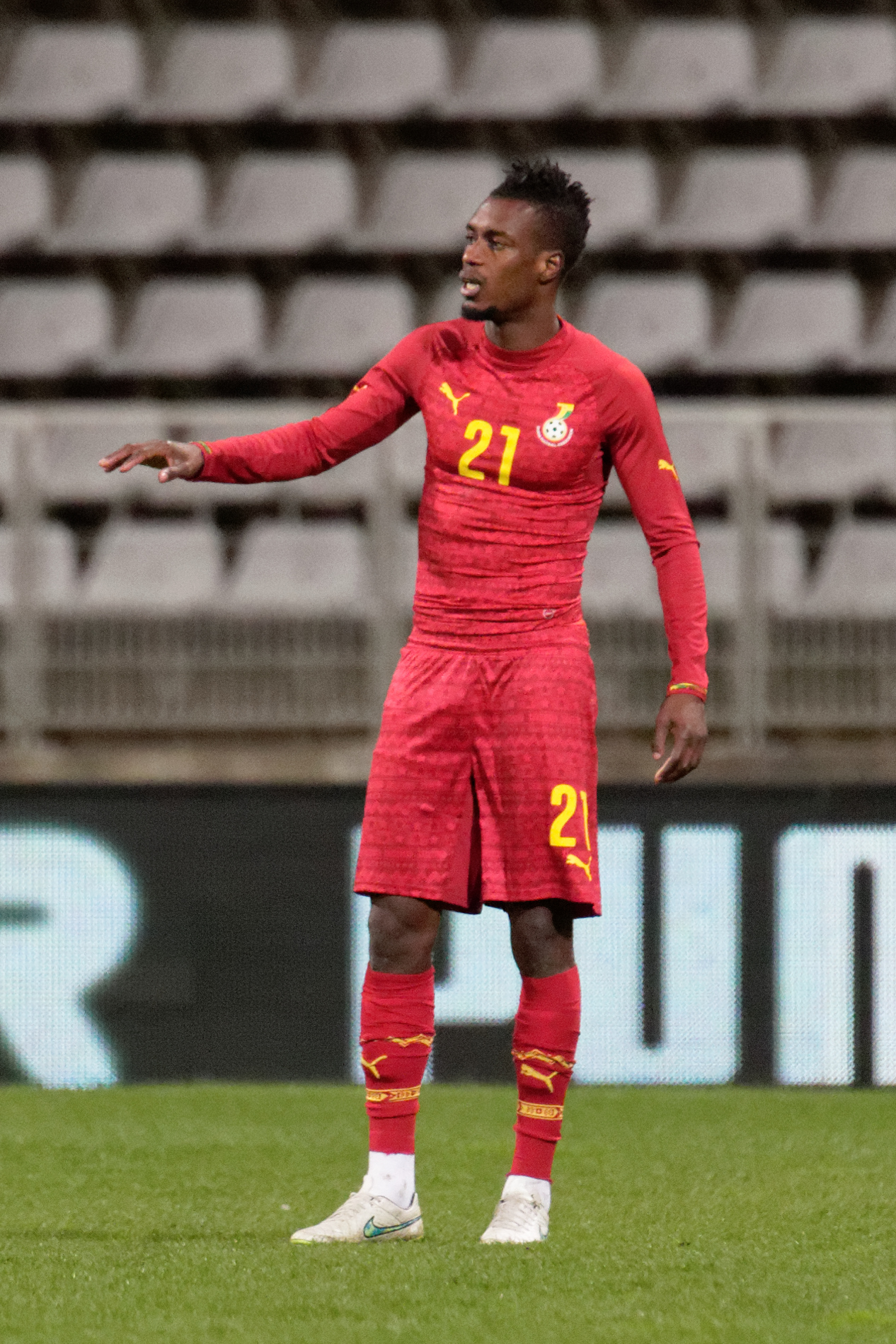 Mali vs Ghana, exhibition game at Paris, 31st March 2015.